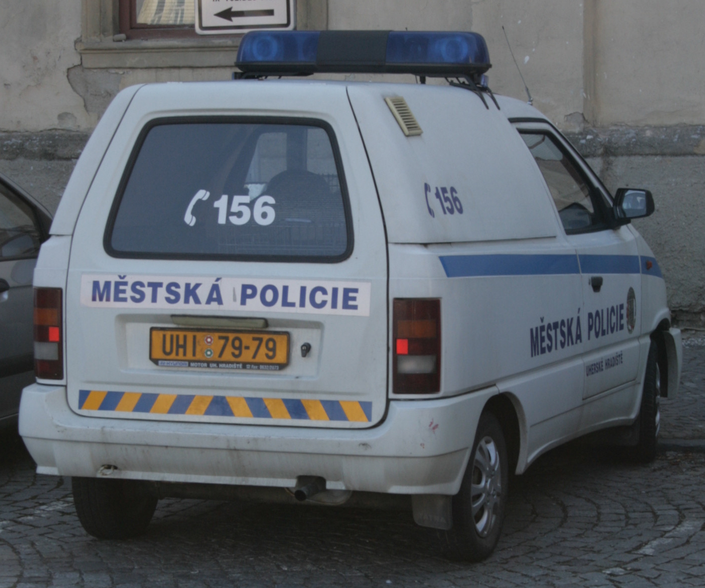 Tatra Beta used by metropolitan police of Uherské Hradište.